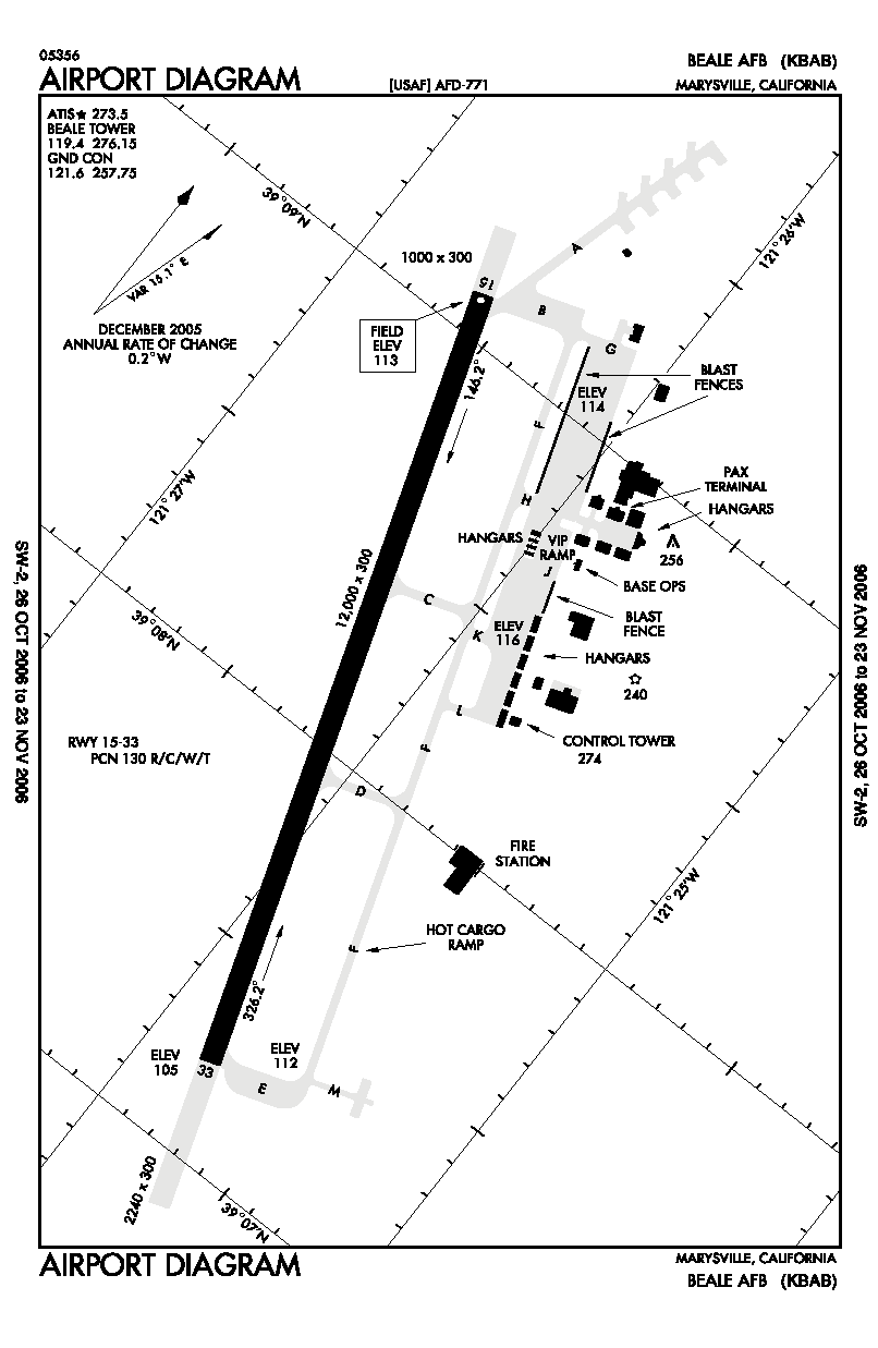 FAA airport diagram for CCR (Beale AFB) in California, United States.